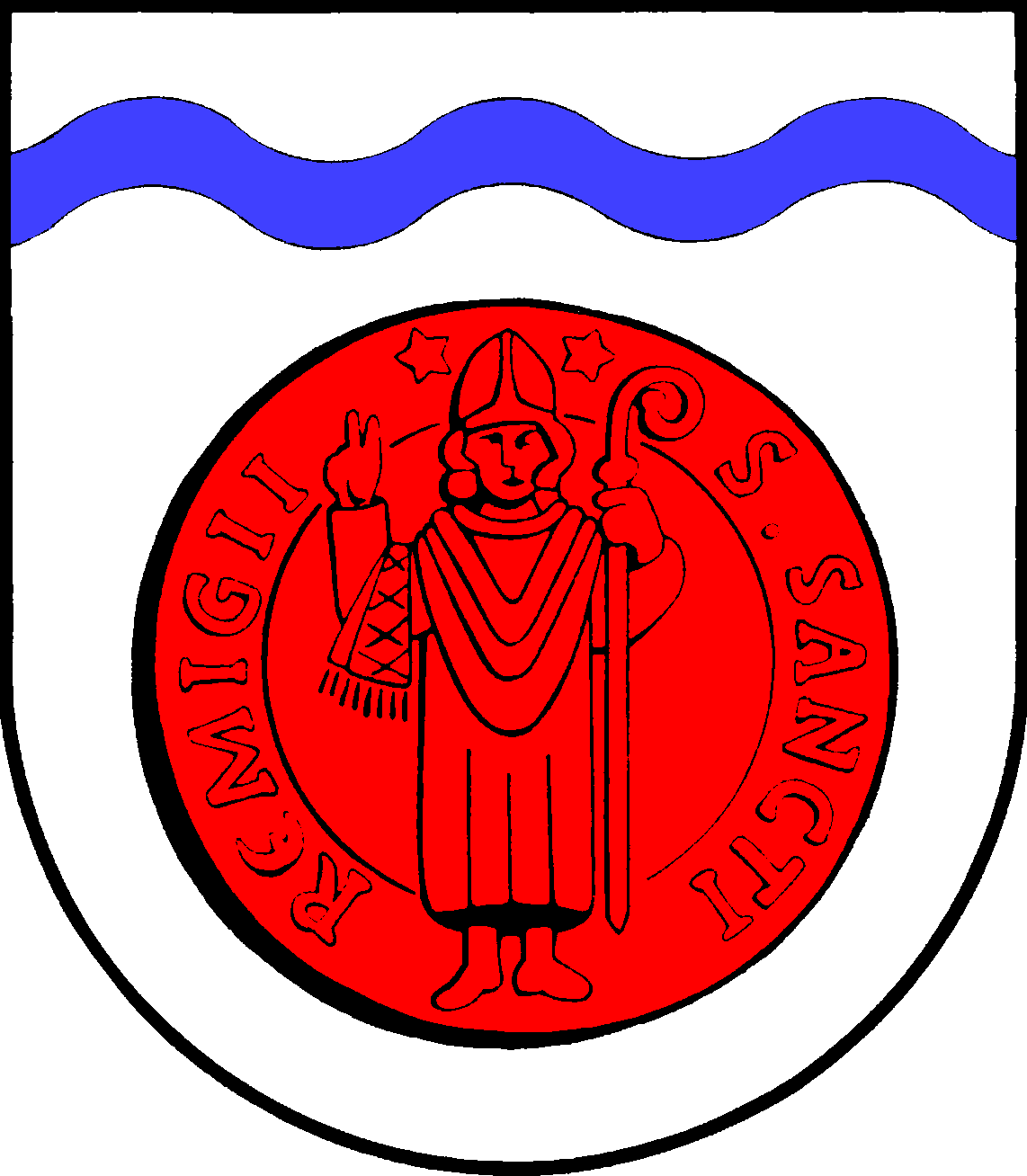 Coat of arms of the Amt Kirchspielslandgemeinde (county) Albersdorf in Schleswig-Holstein, Germany.